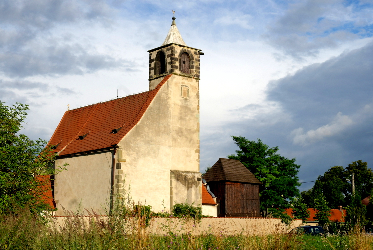 Church of Saint James, Libušino square, Libiš, Mělník District. Built before 1391 in Gothic style probably by builder Petr Lútka. Western view.